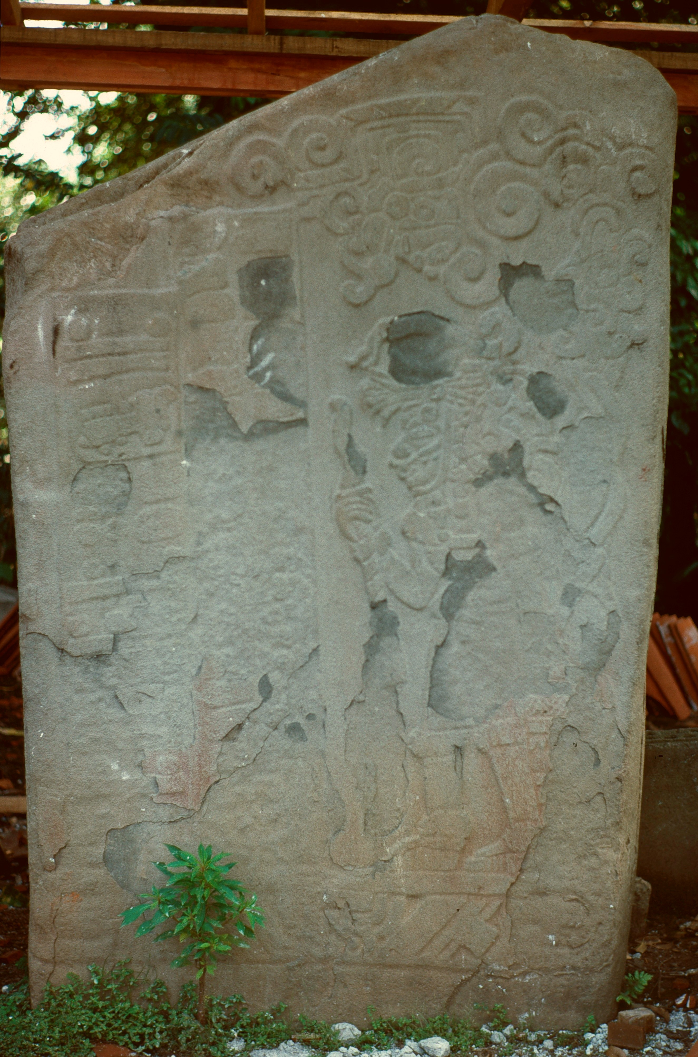 El Baul, Guatemala, Stela, 37 CE